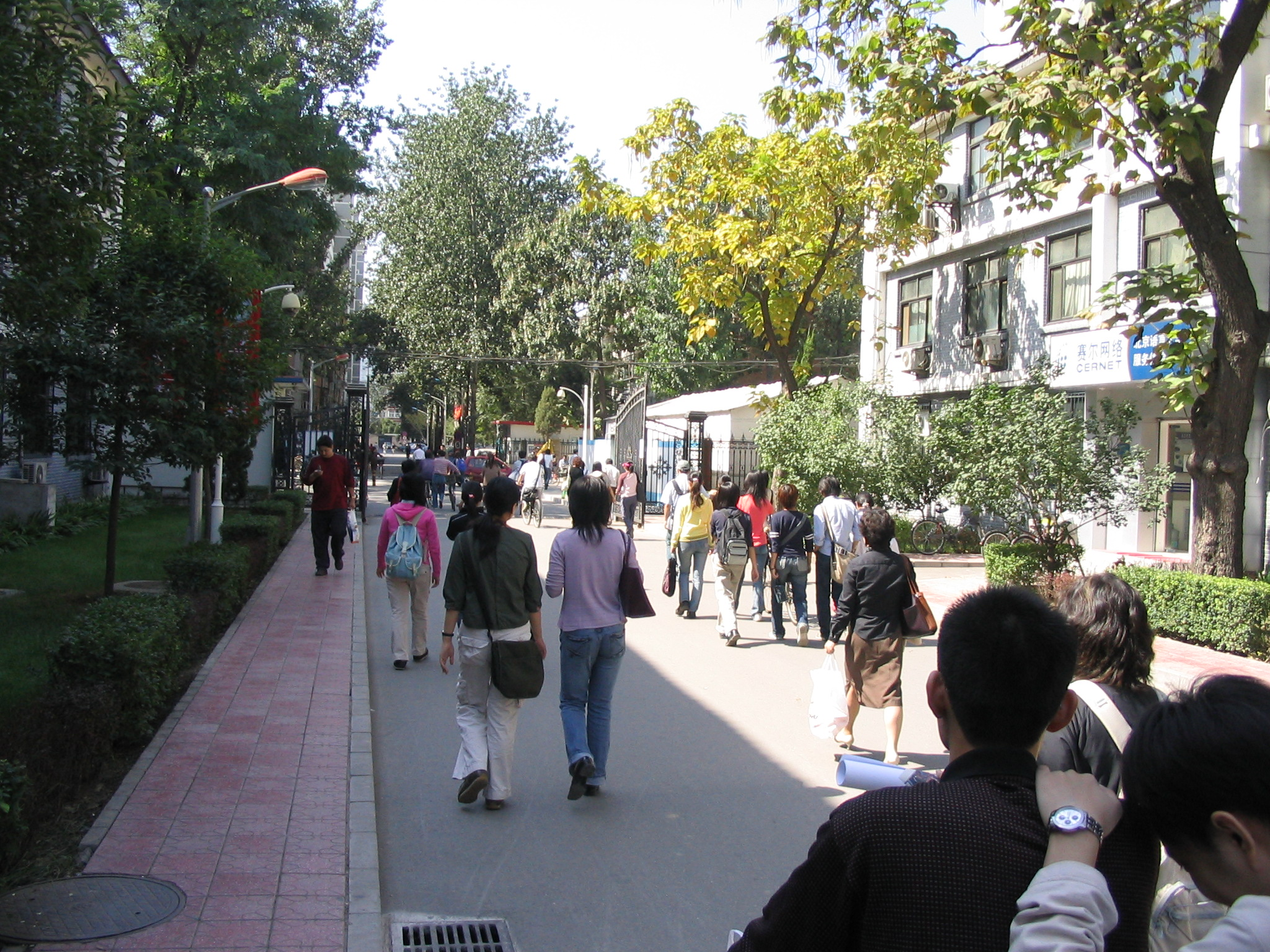 Students at Yu Yen Da Xue (Language and Culture University), Wudaokou, Beijing, China.